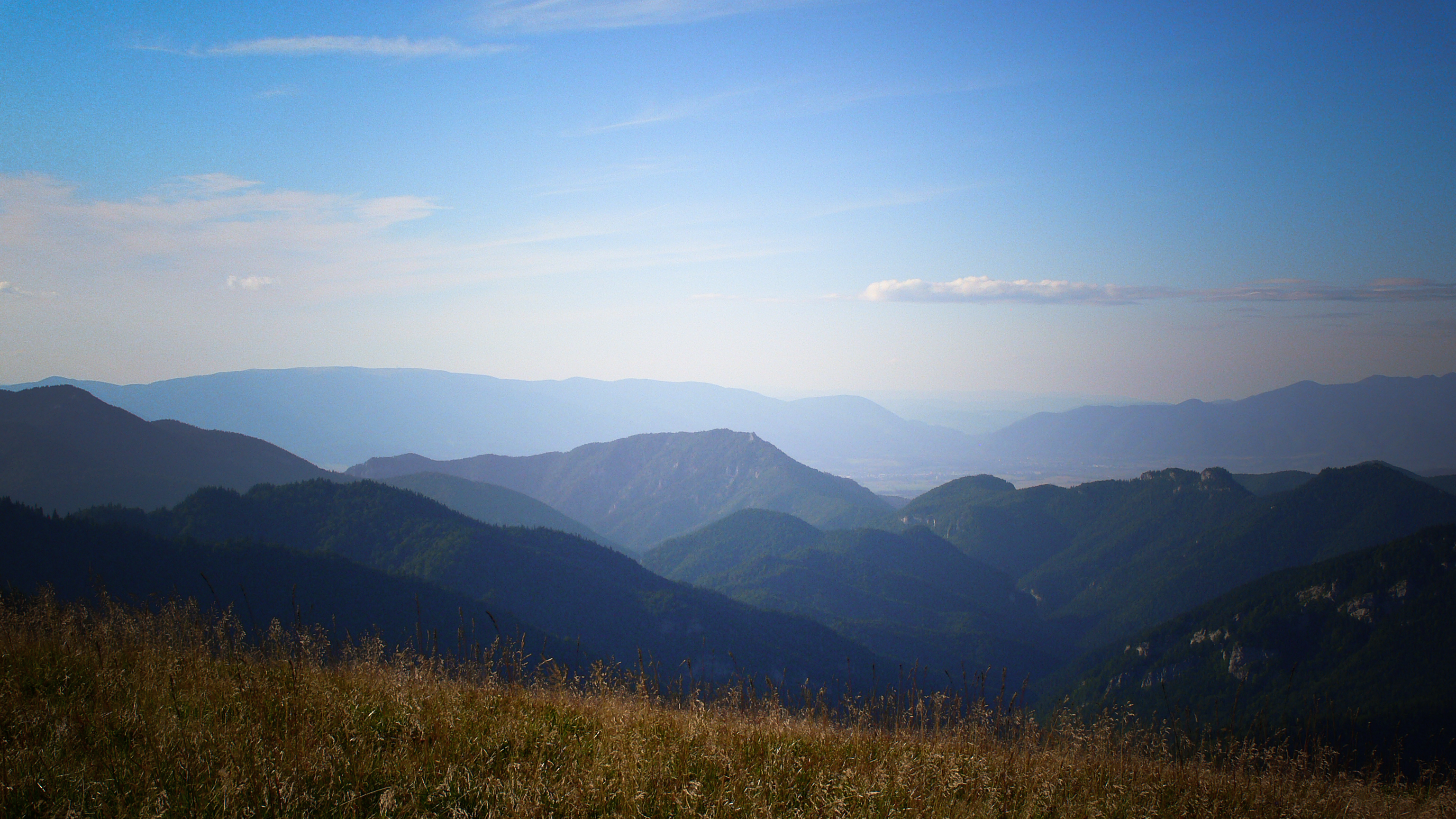 Veľká Fatra - national park in SlovakiaSlovenčina: Veľká Fatra - Národný Park na Slovensku